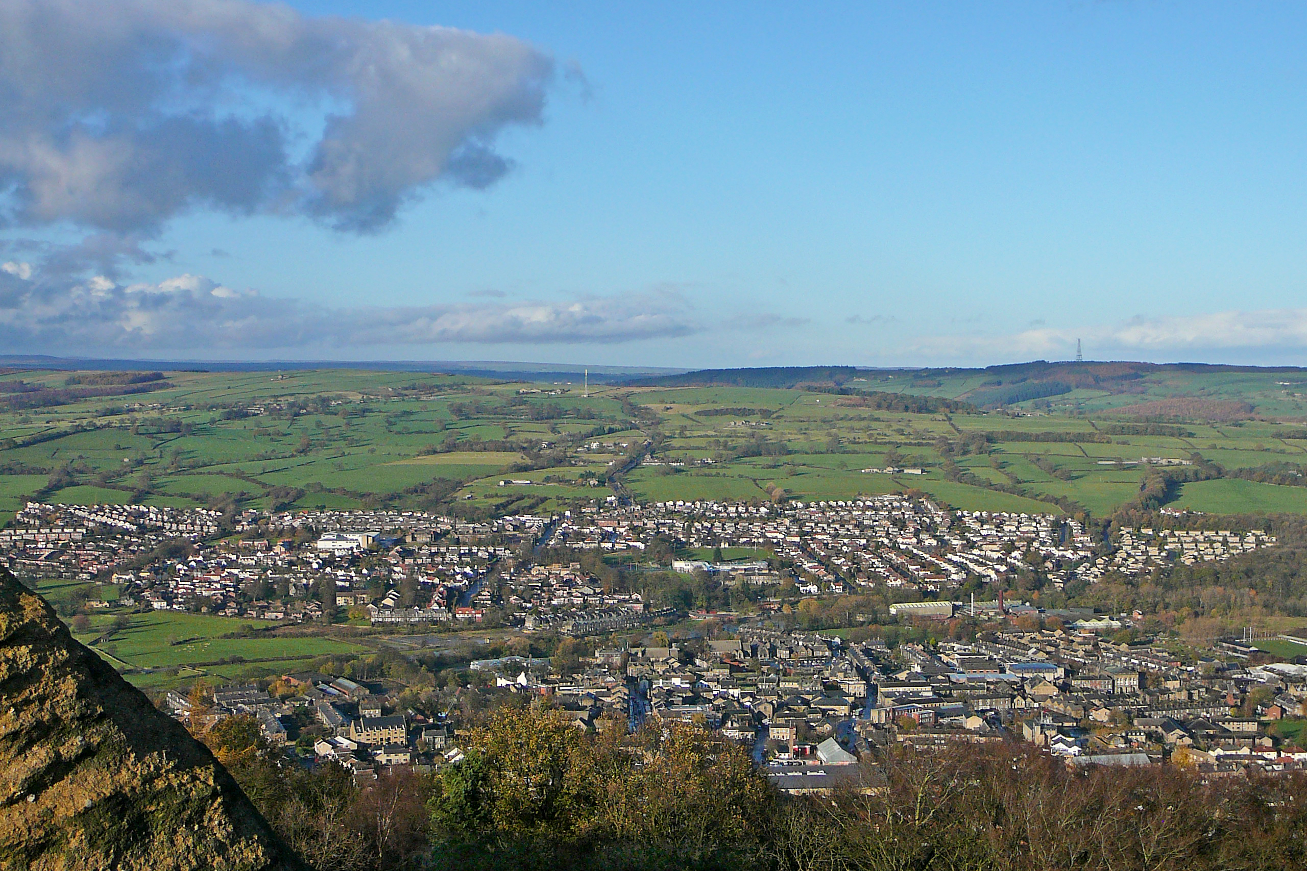 Otley as seen from the Chevin in West Yorkshire. Taken on Saturday the 13th of November 2010.